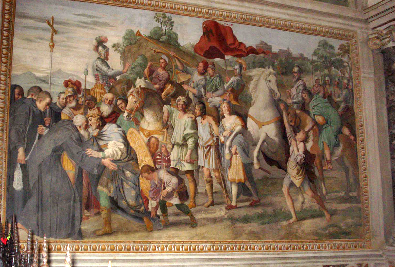 Meeting of St Nilus and Otto III (Domenichino, Farnese Chapel))